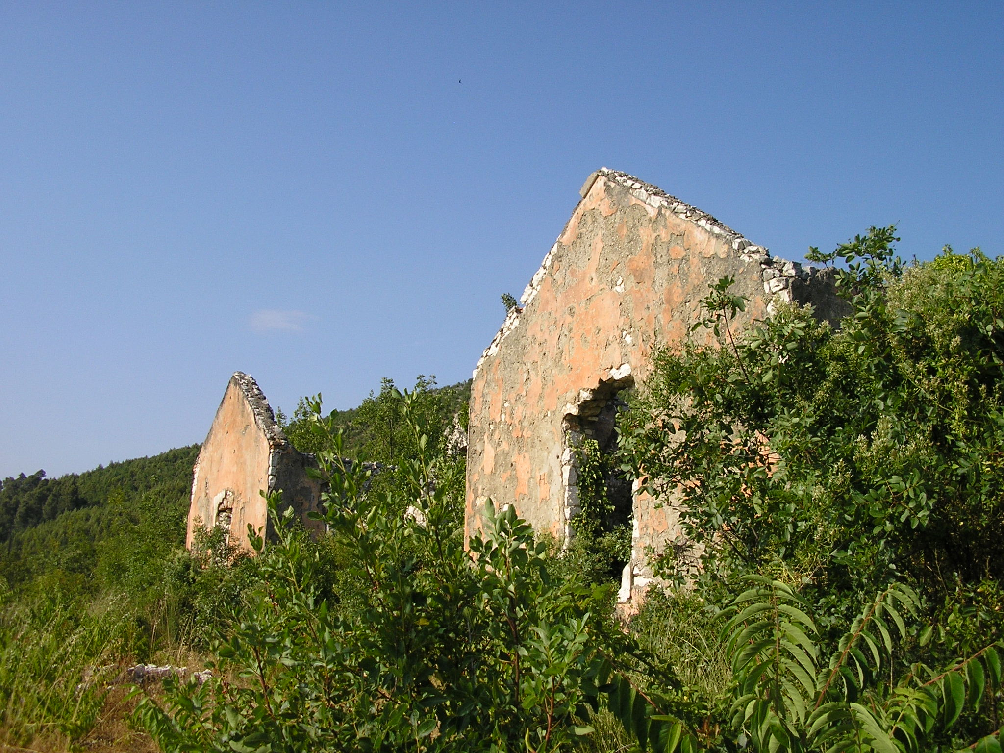 The Lepers’ Houses near Metković